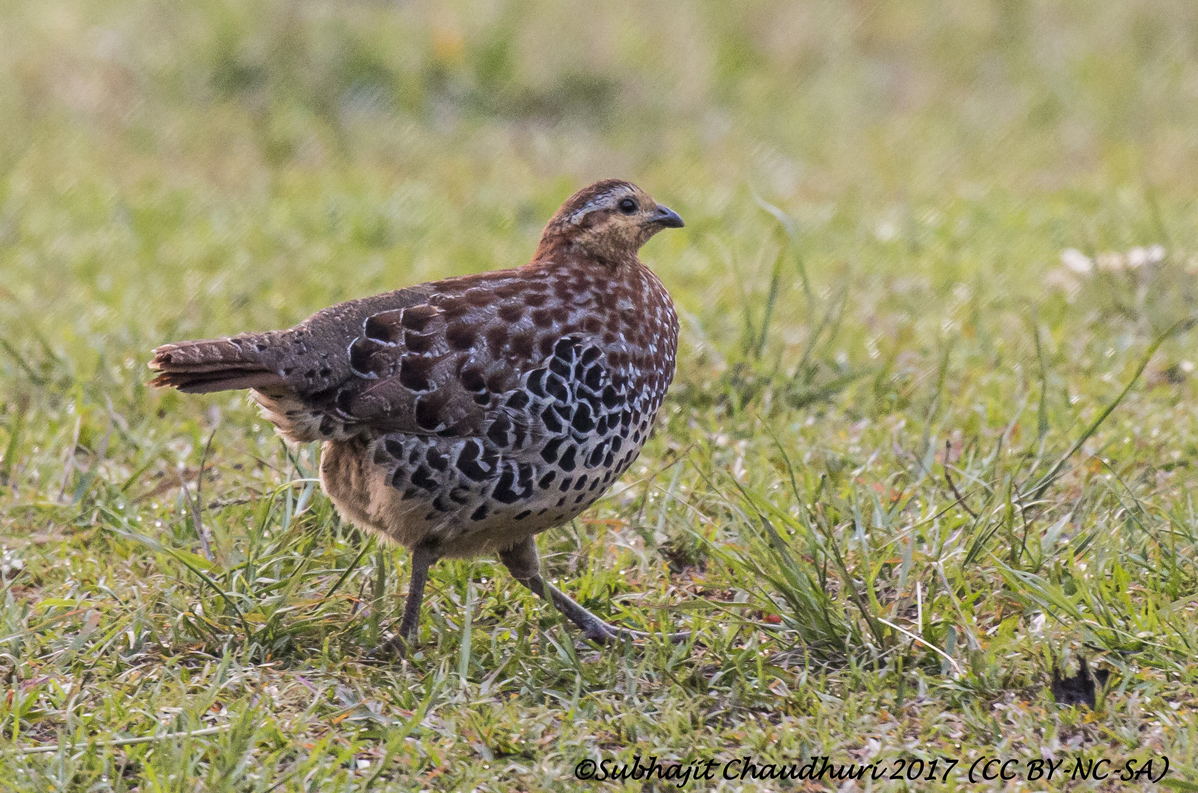 A female Mountain Bamboo Partridge , seen as pair in early morning during feeding hours in Khonoma village of Nagaland.